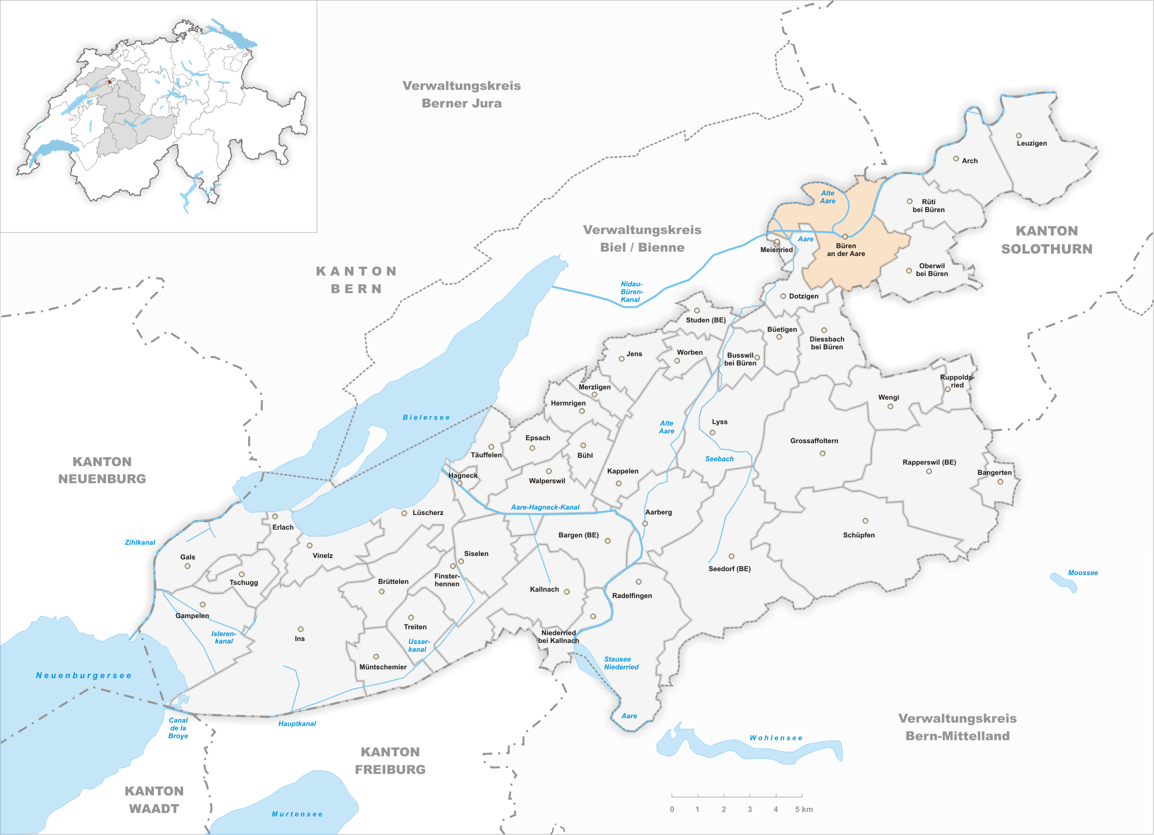 Municipality Büren an der Aare